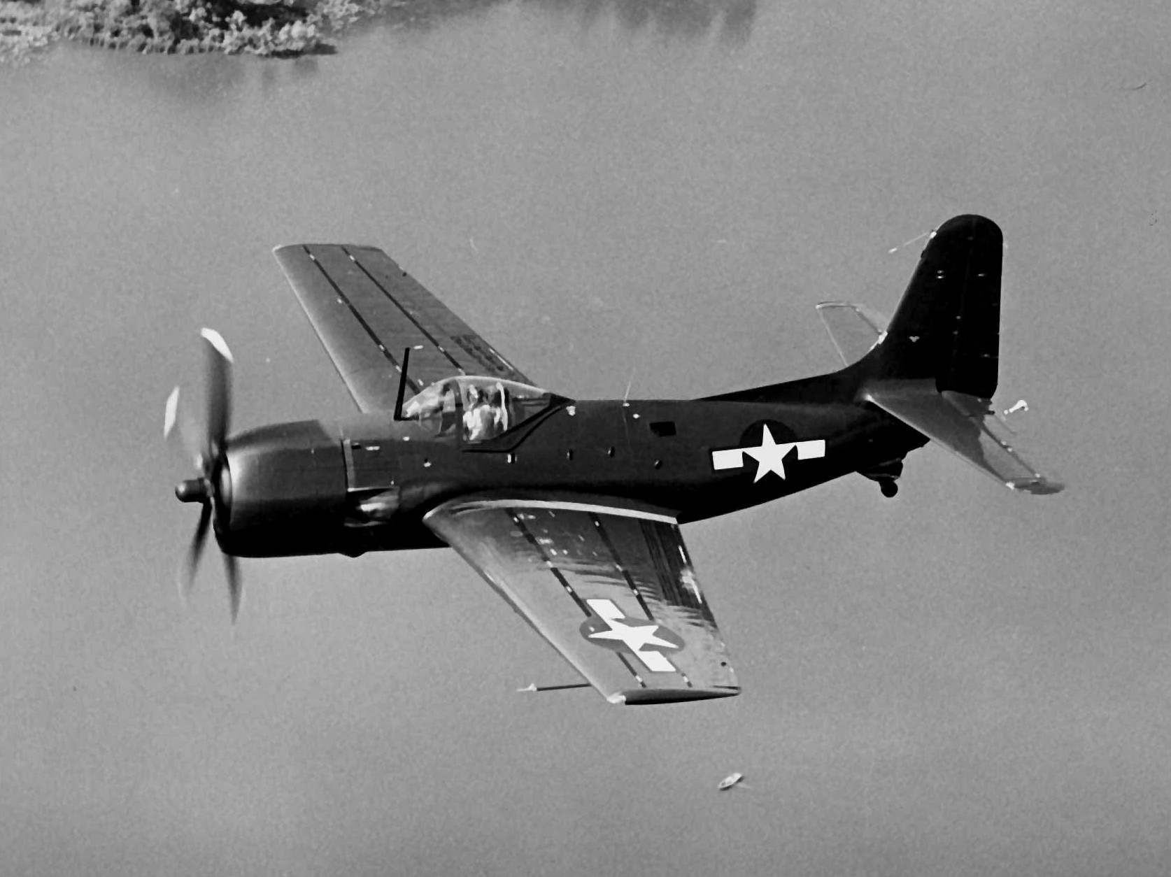 A U.S. Navy Curtiss XBT2C-1 in flight. Though similar in appearance to its XBTC predecessor, the ten XBT2C-1 aircraft featured a smaller 2,000 hp Wright R-3350-24 engine with a standard propeller and a place for a second crewman in the fuselage. Additionally, the aircraft was equipped with an internal bomb bay, giving it the capability of carrying up to 1,800 kg of ordnance. Ordered on 27 March 1945, well after the XBTC, the XBT2C nevertheless flew before its predecessor. Only nine of the ten examples of the aircraft ordered by the Navy were actually delivered, the last appearing in October 1946.